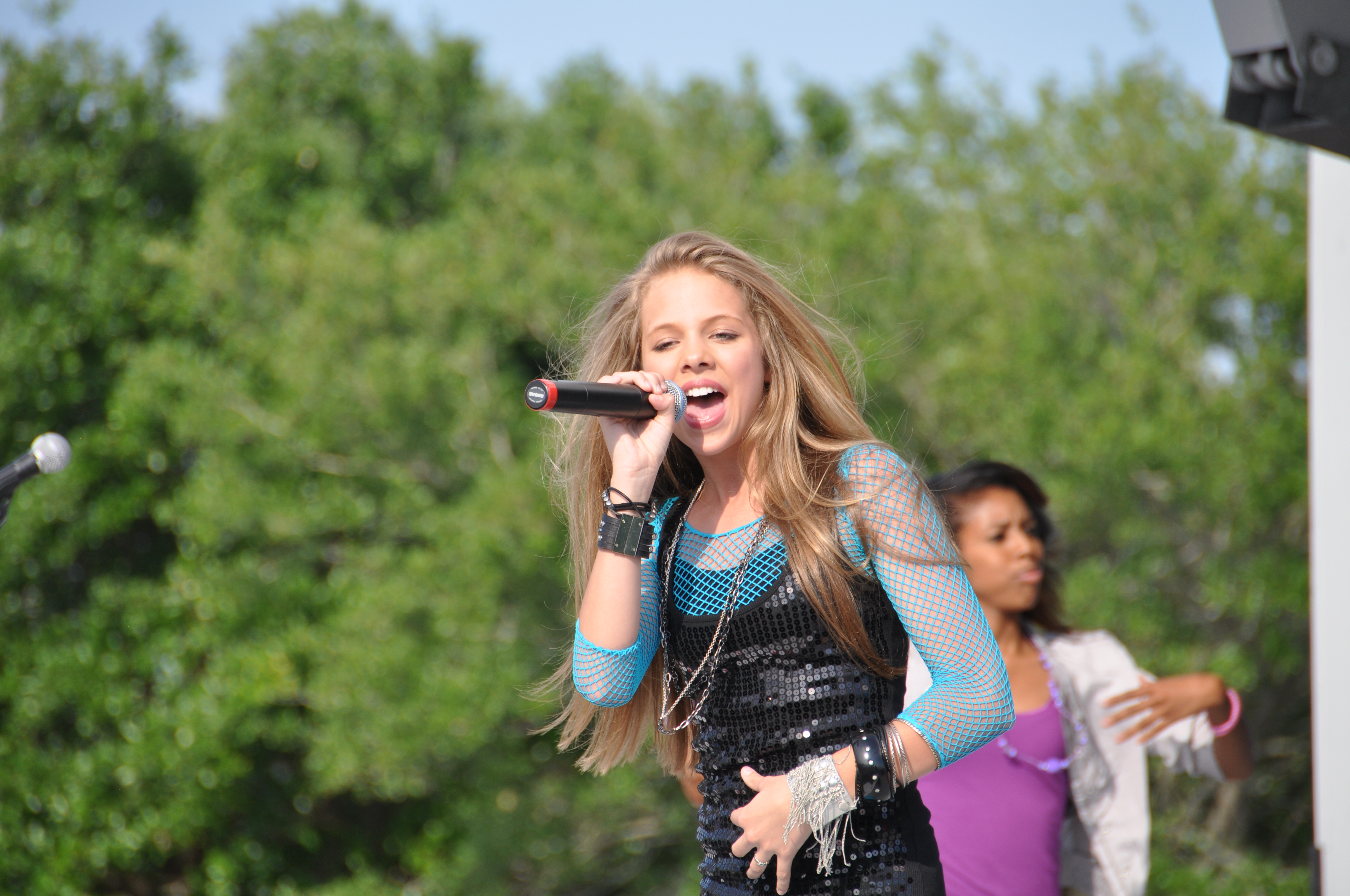 Anna Margaret - Education in the Park 2010